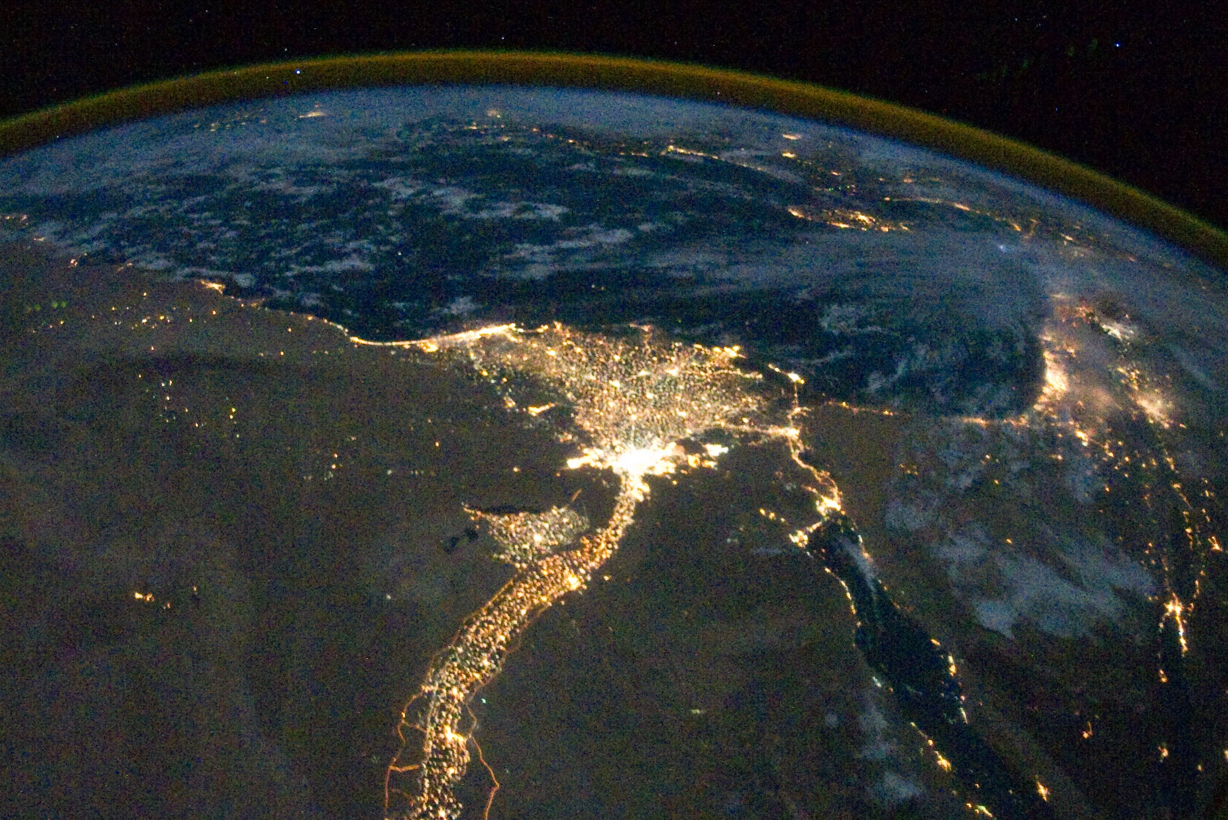 In this view of Egypt, we see a population almost completely concentrated along the Nile Valley, just a small percentage of the country’s land area. The Nile River and its delta look like a brilliant, long-stemmed flower in this astronaut photograph of the south-eastern Mediterranean Sea, as seen from the International Space Station. The Cairo metropolitan area forms a particularly bright base of the flower. The smaller cities and towns within the Nile Delta tend to be hard to see amidst the dense agricultural vegetation during the day. However, these settled areas and the connecting roads between them become clearly visible at night. Likewise, urbanized regions and infrastructure along the Nile River becomes apparent.